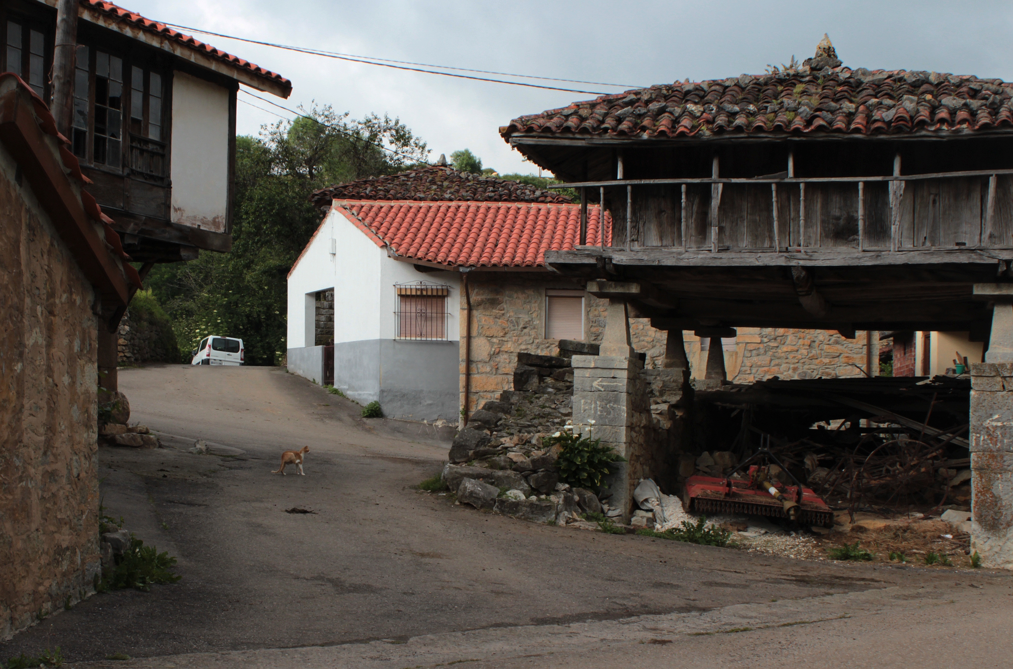 Villandás - entrance to the village. Note the horreo (granary) to the right.